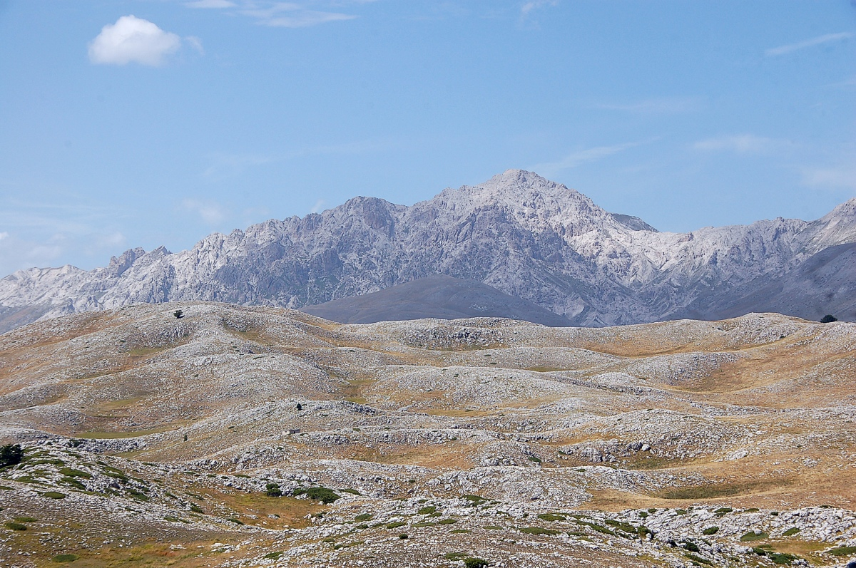 Campo Imperatore